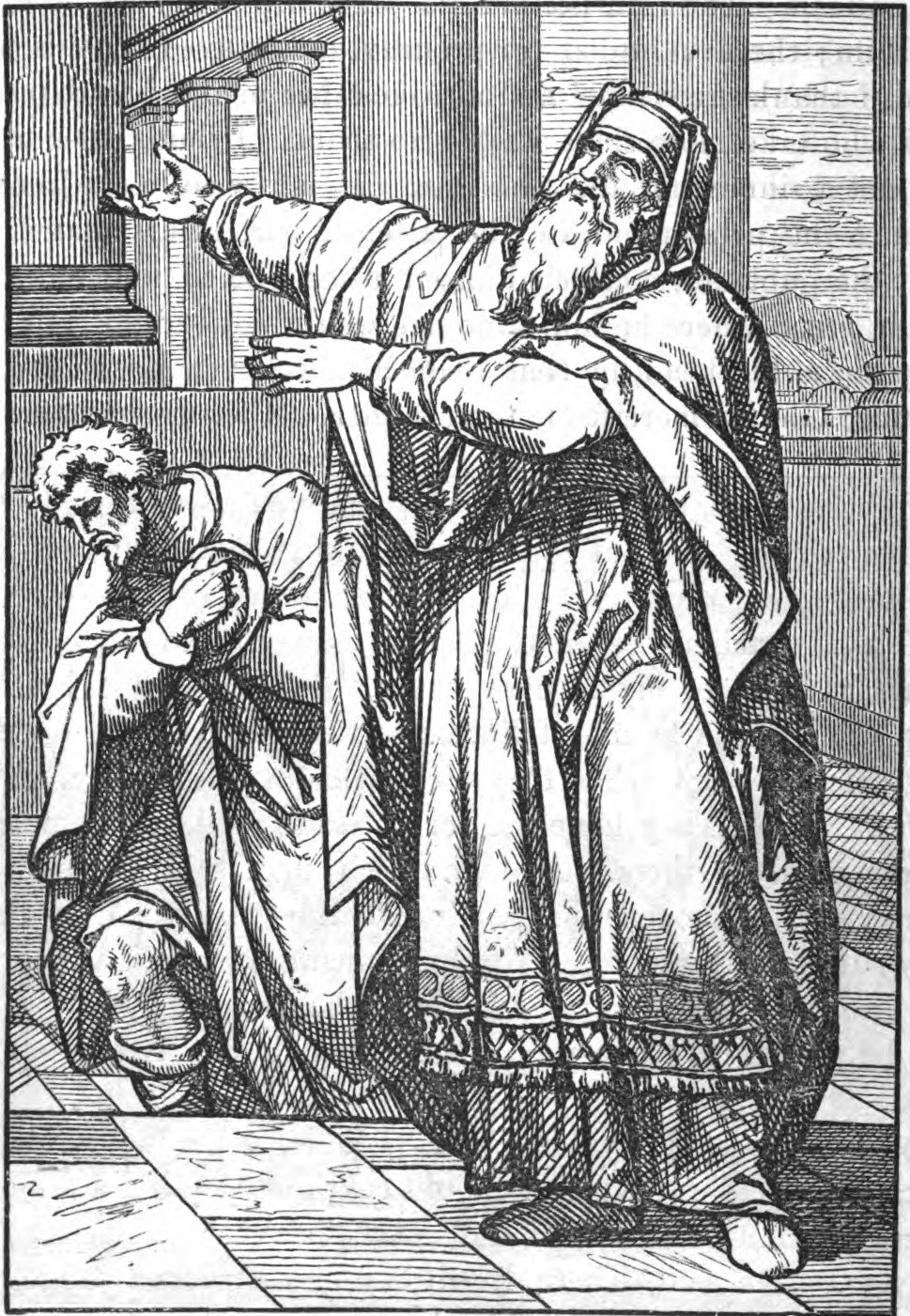 The pharisee and publican.